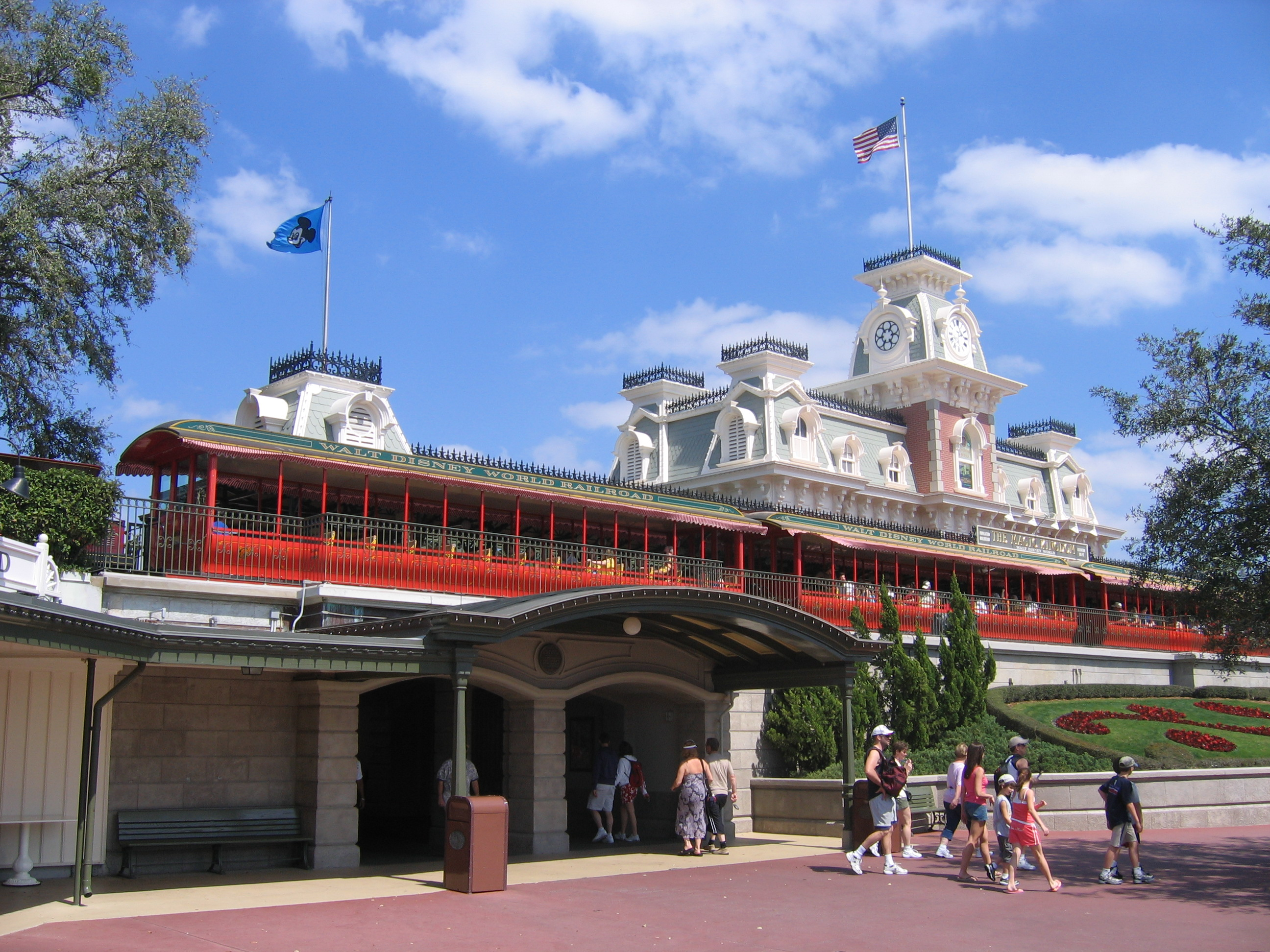 The Walter E. Disney locomotive with its train, waiting at Main Street U.S.A. Station.